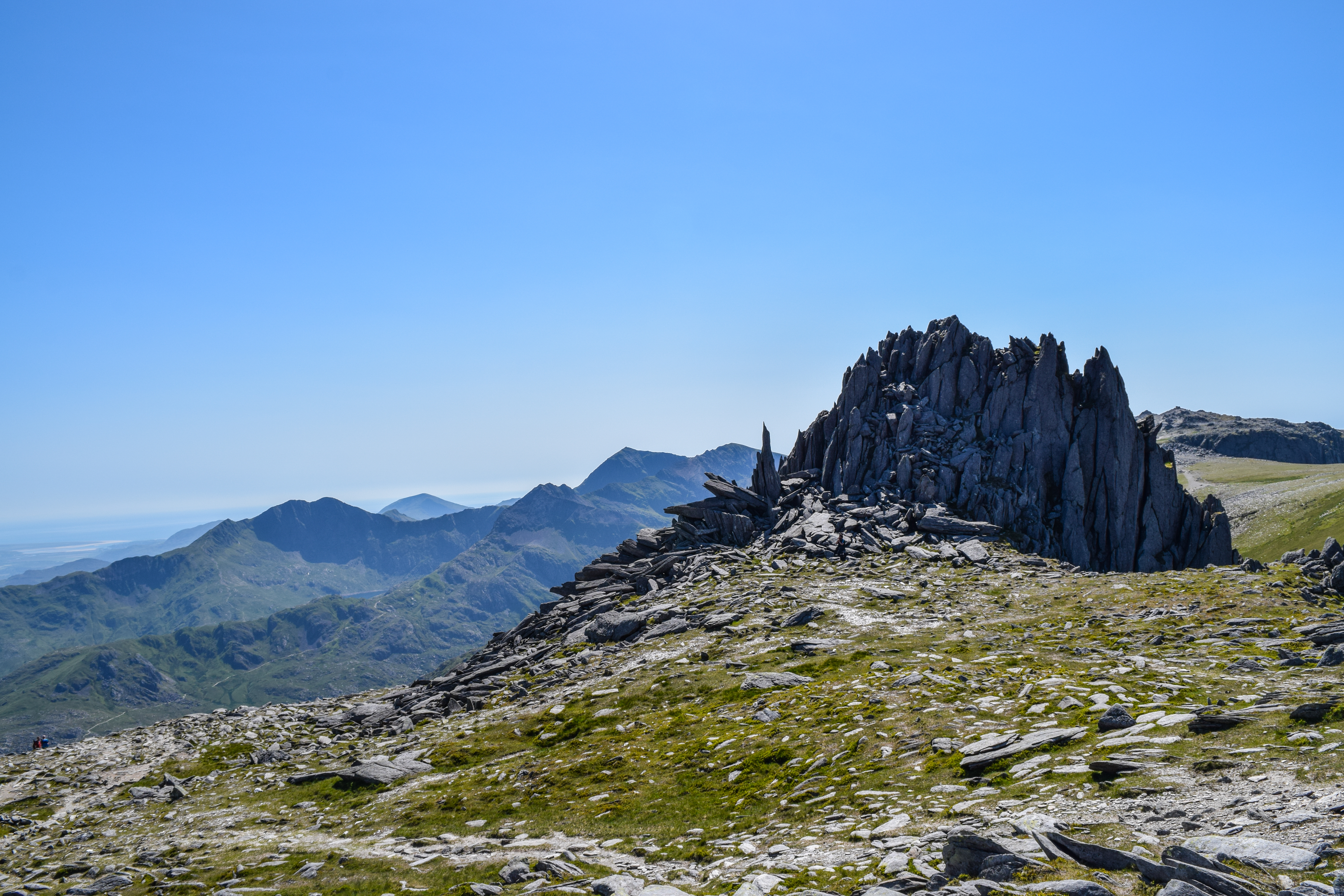 Castell y Gwnt with Snowdon visible in the background.